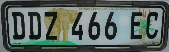 licence plate Eastern Cape, ZA